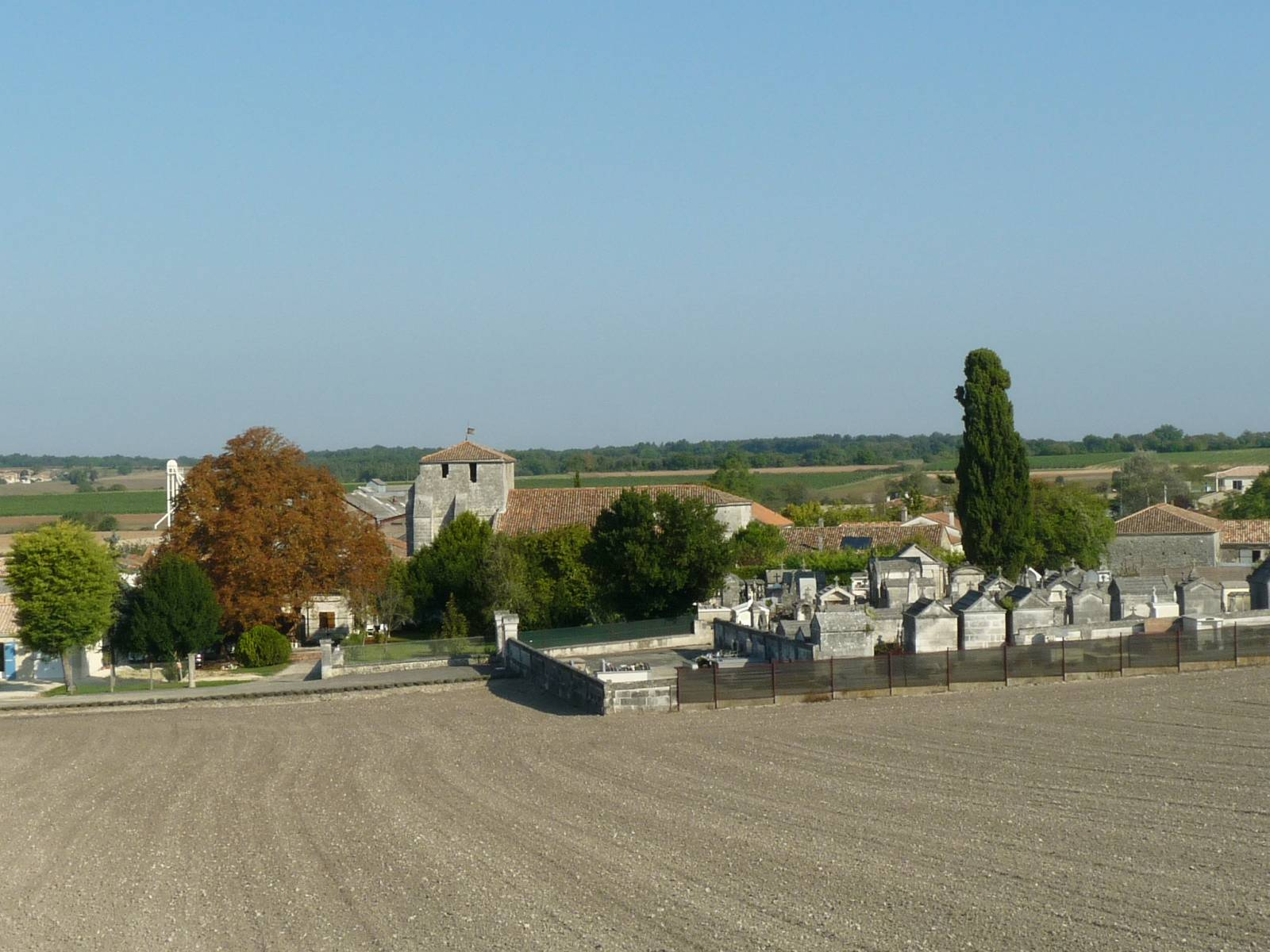 south view of Fouquebrune, Charente, SW France